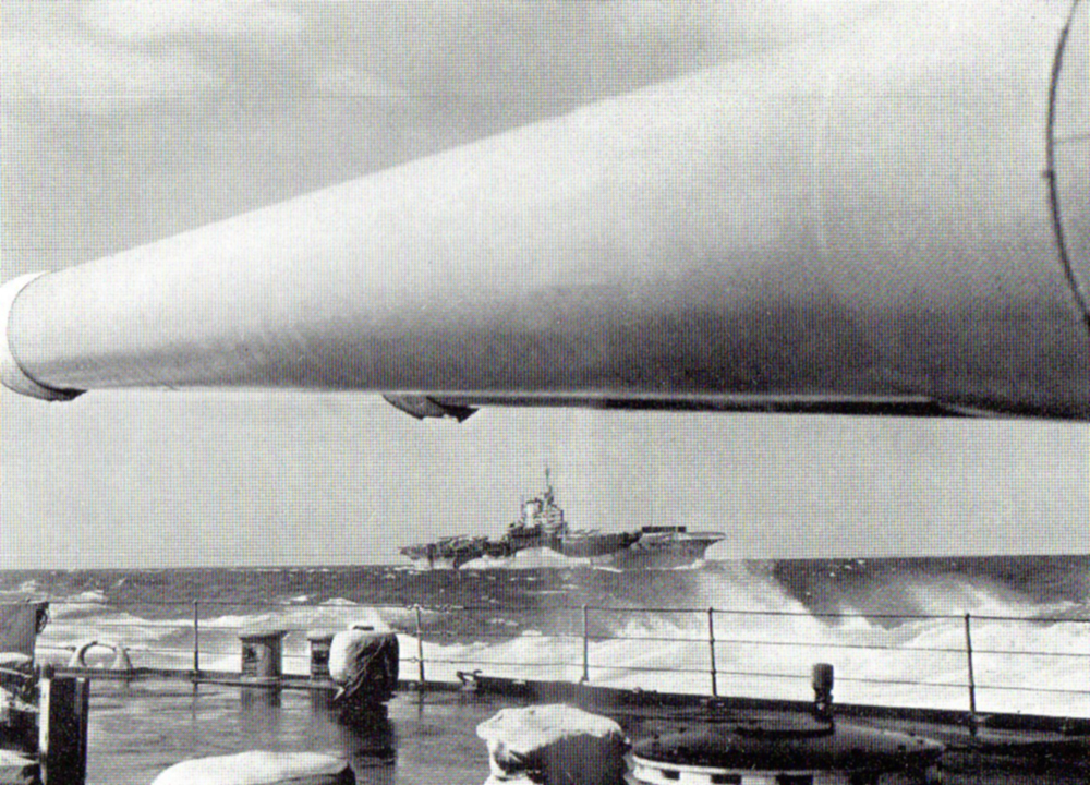 Battle of Matapan. HMS Formidable as viewed from the HMS Warspite